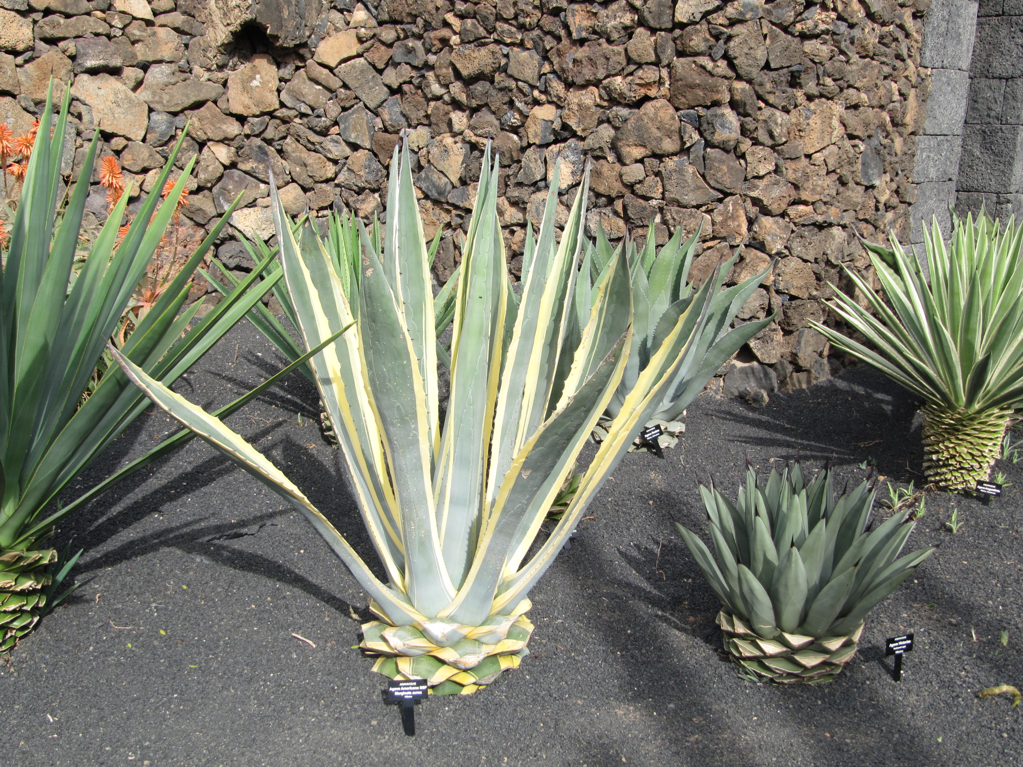 Agave americana marginata